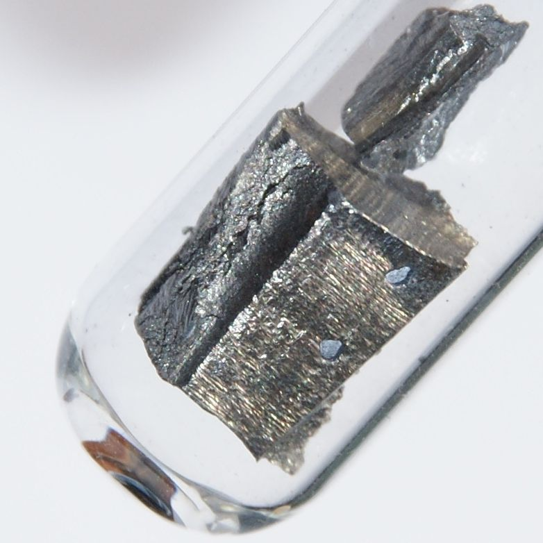 Ultrapure neodymium under argon, 5 grams. Original size in cm: 1